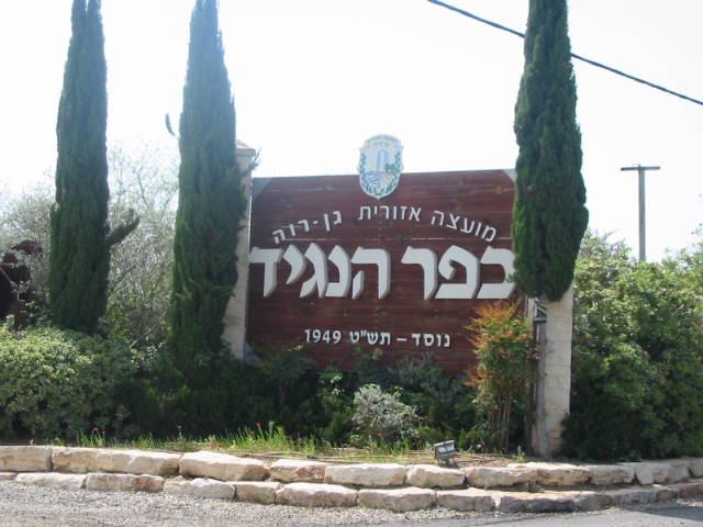 Sign at entrance to the moshav